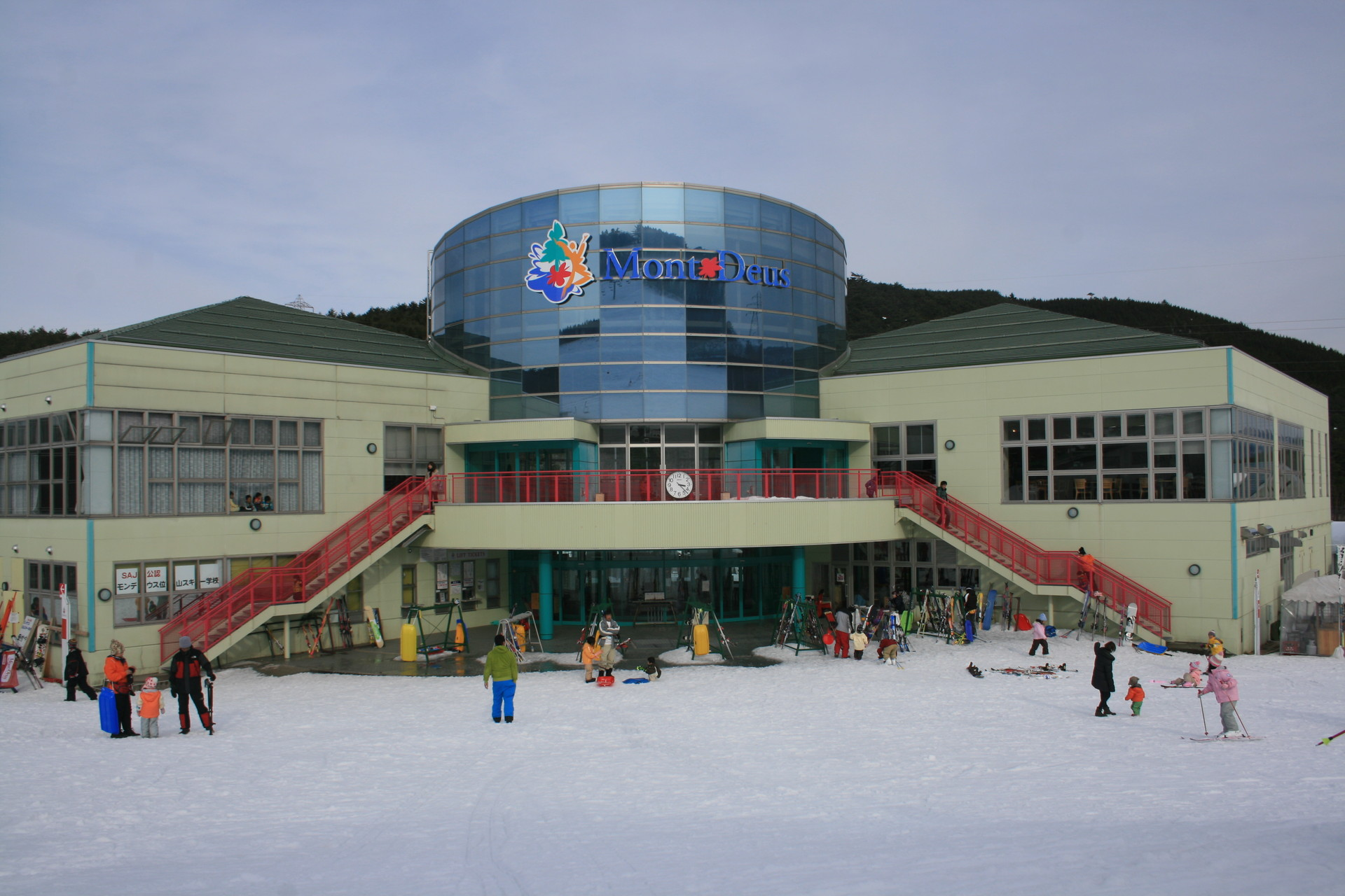 Montdeus Hida Kuraiyama Snow Park